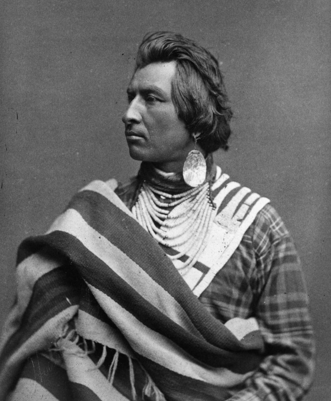 Donald McKay, Chief of the Warm Springs Indians wrapped in a blanket and wearing a plaid shirt, bandolier, a shell earring.